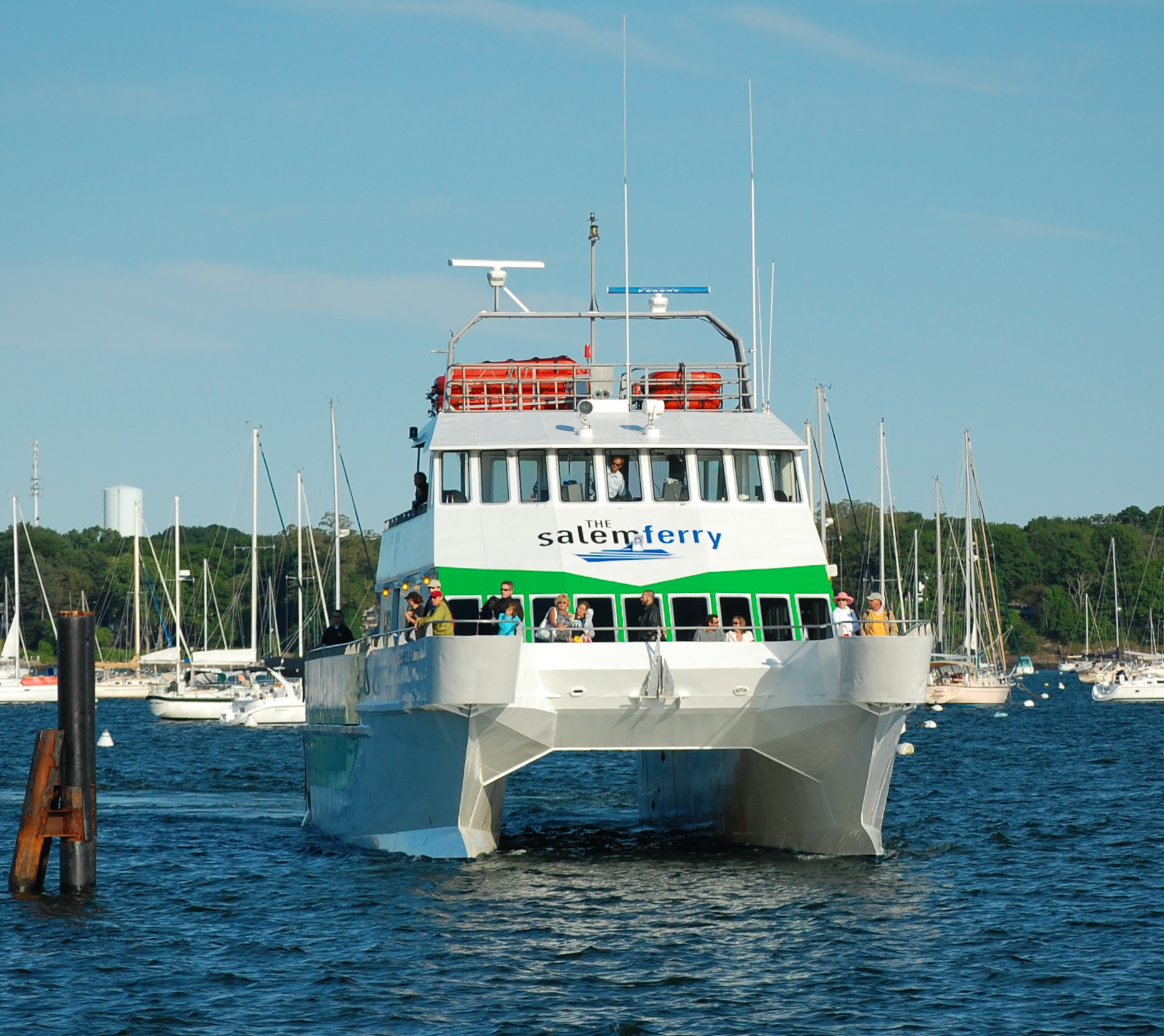 The Salem Ferry, Nathaniel Bowditch, approaches its dock in Salem, Massachusetts. Two Caterpillar diesel engines allow a top speed of 36 knots, making the trip to Boston in about 45 minutes in good weather. The Salem Ferry is a 92 foot long catamaran. It was purchased with the help of a $1.6 million Federal grant. Recently land was purchased to expand the dock and allow for a future cruise ship terminal. The western shore of Marblehead is visible in the background.